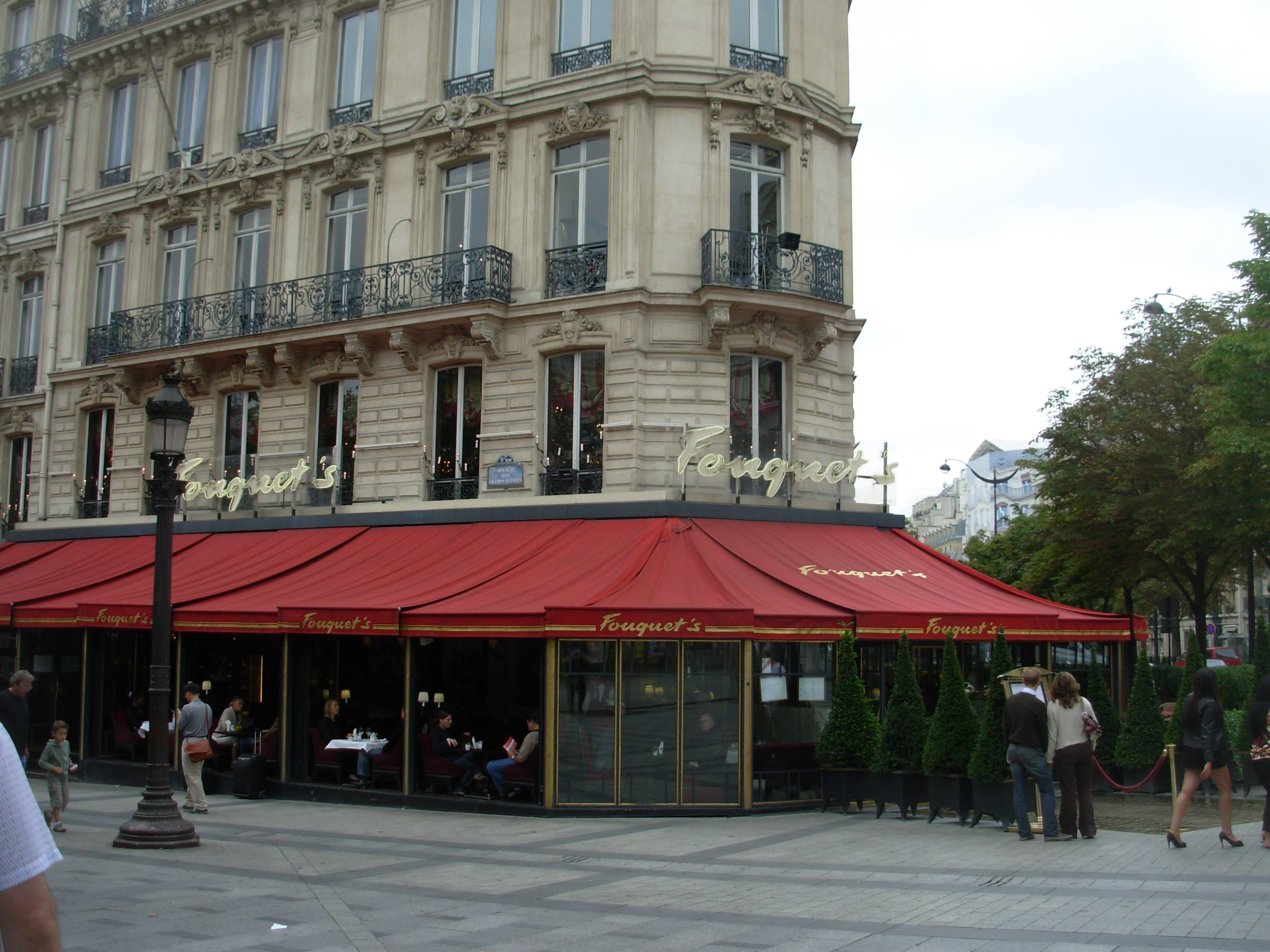 Fouquet's restaurant at Paris, France.